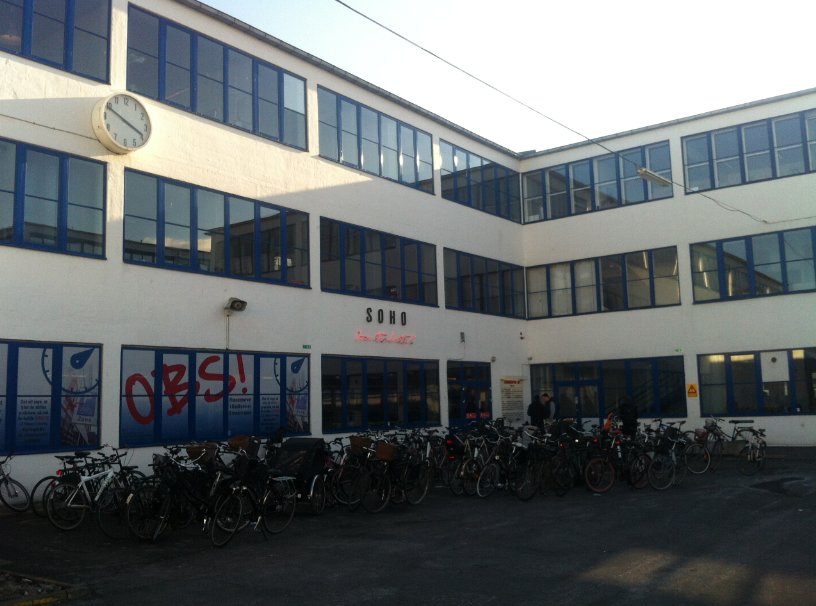 Soho house for start-ups